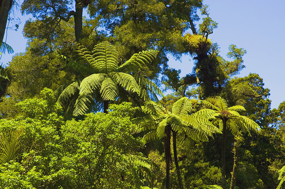 Forest in the Waitakere Ranges, Waitakere, Auckland Region, North Island, New Zealand